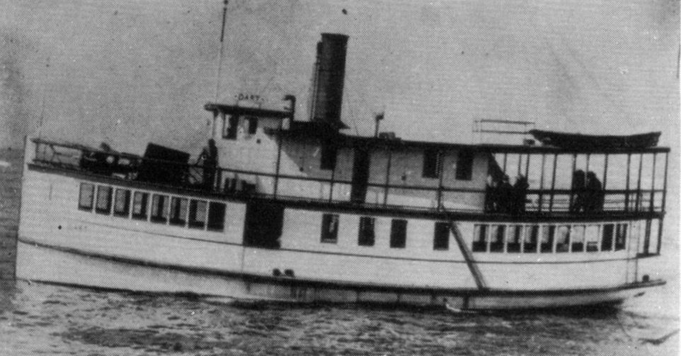 Dart, steamboat in Puget Sound, later converted to diesel power and ran as freighter in Alaska.